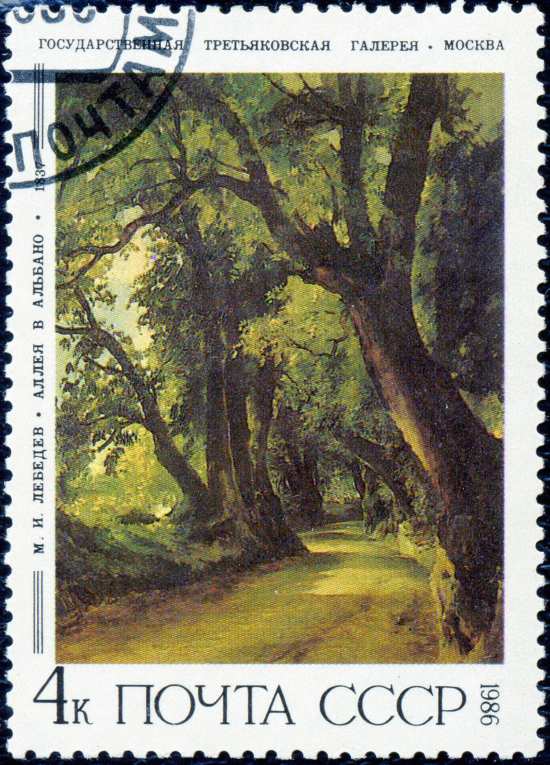 Stamp of the Soviet Union. 1986. Mikhail Ivanovich Lebedev: Allée in Albano, 1837